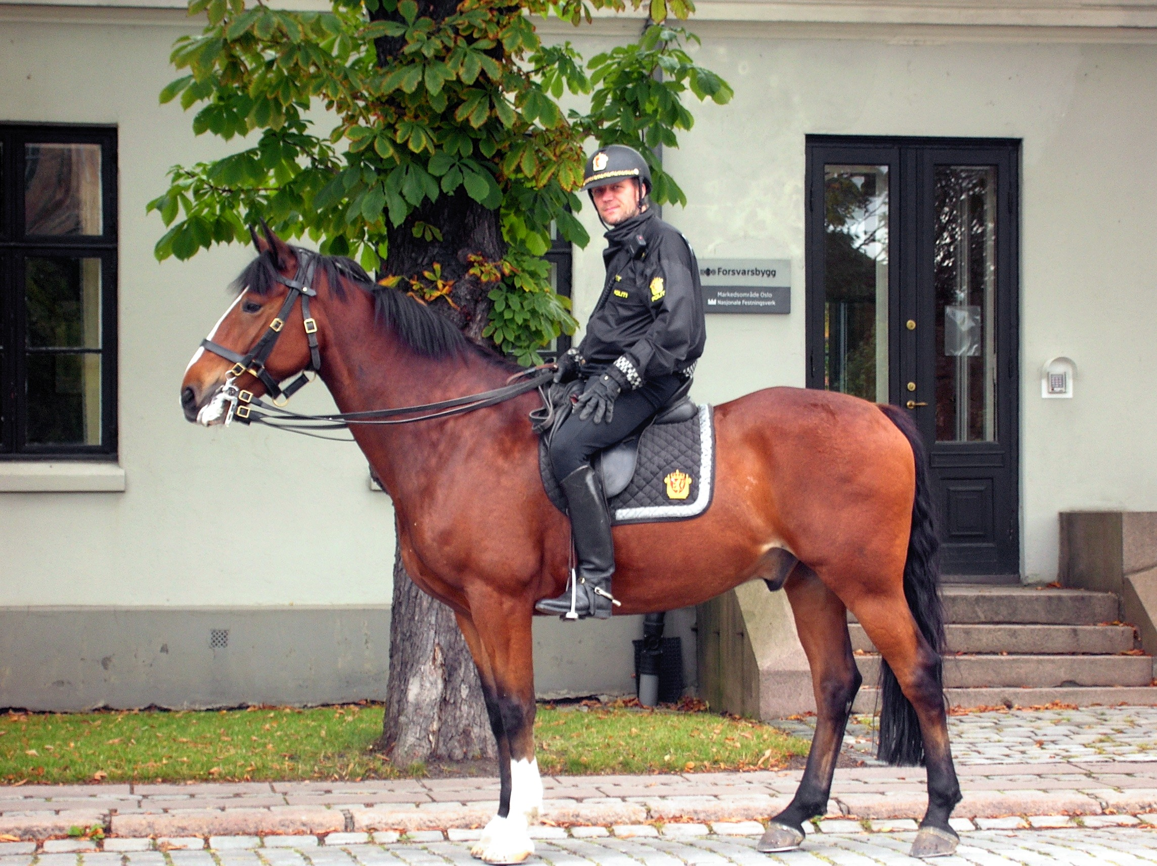 Norway mounted policeman in Akerhus festning in OsloNorsk bokmål: Politibetjent ved Rytterkorpset utenfor Akershus festning i Oslo